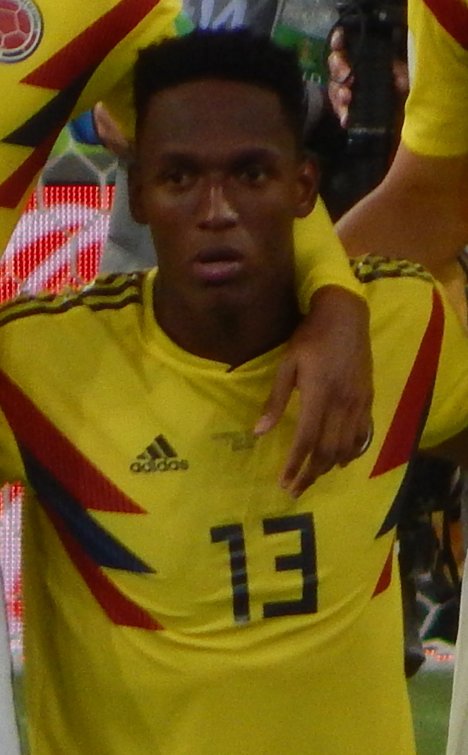 FIFA World Cup 2018, Round of 16, Colombia vs. England